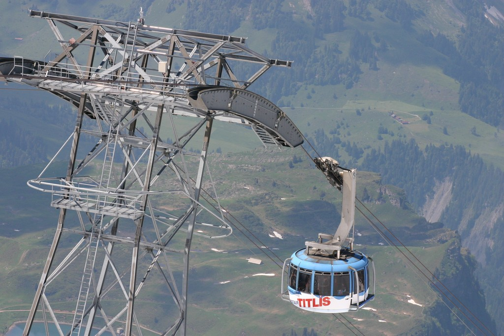 Titlis, Switzerland